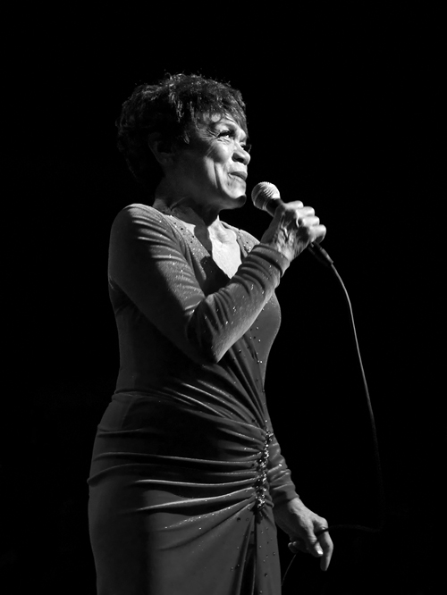 Legend Eartha Kitt performing live. At the age of 80, she still has it all. Witty, funny, self-mocking, grinding, sexual innuendo, and nostalgic. She ended her show with 2 songs, "It was a very good year" and "Here's to life". Simply beautiful, like vintage wines. Seek her out if you can.